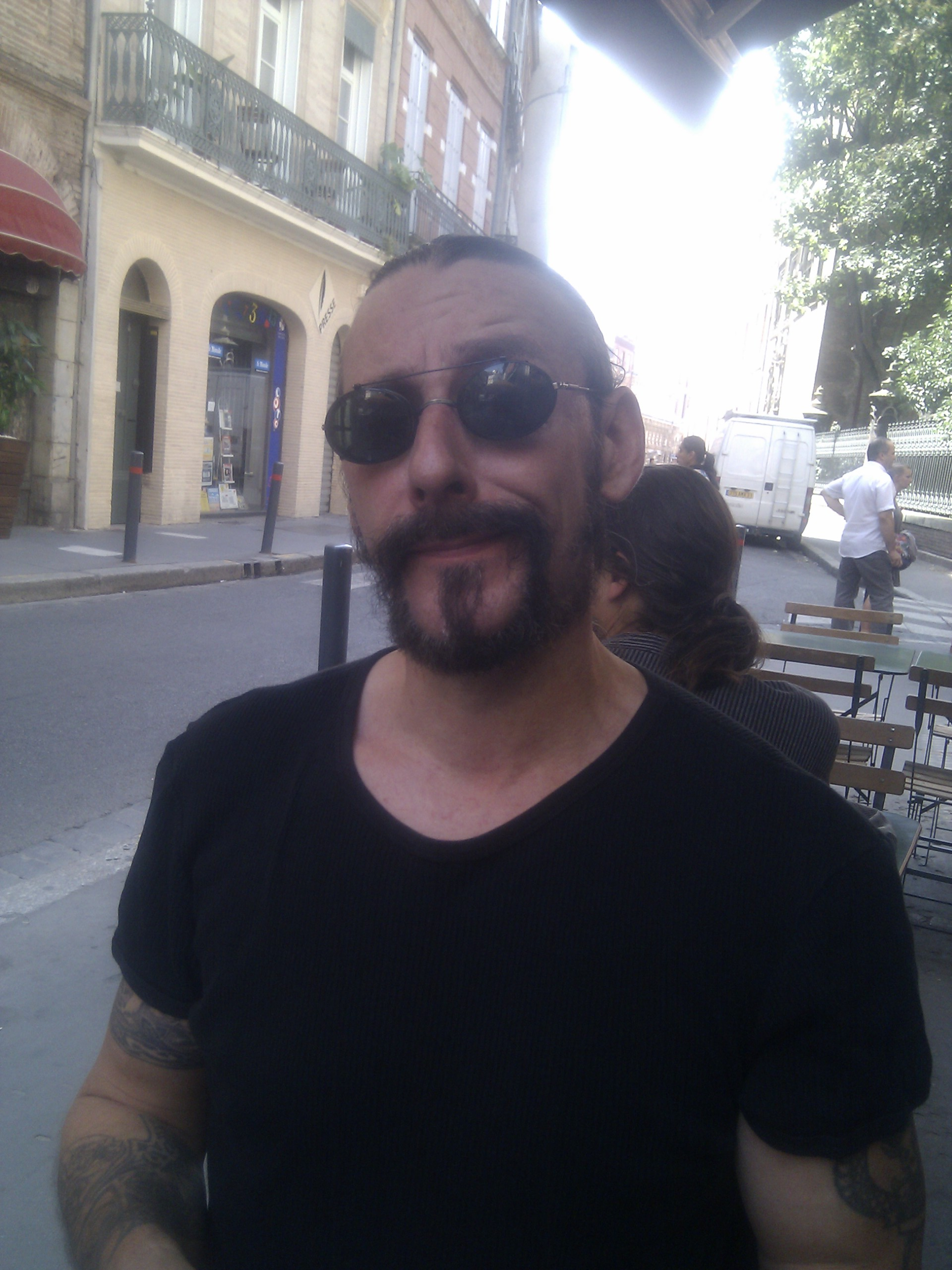 Coyote, Toulouse, 08-22-2011